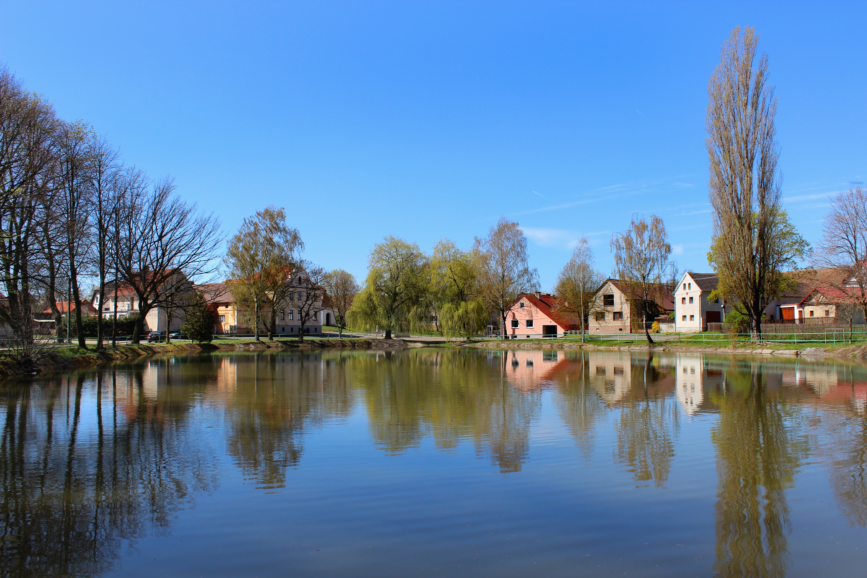 Common pond in Únehle village, Czech Republic